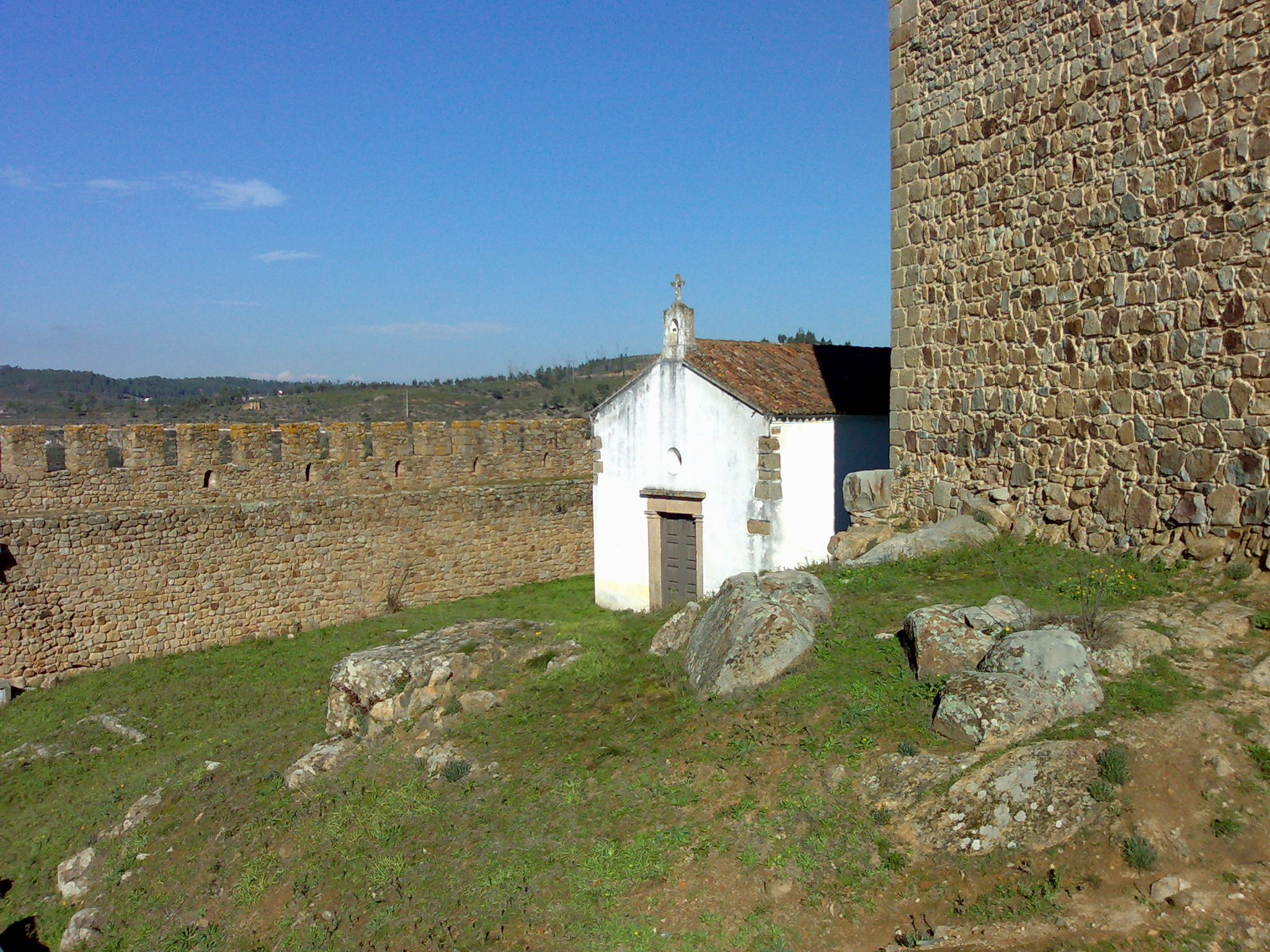 São Brás chapel in Belver castle, Gavião, Portugal.